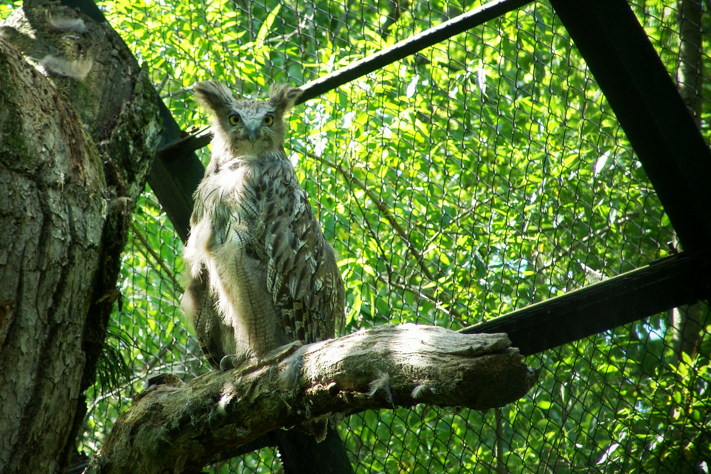 Blakiston's Fish Owl at Kushiro Zoological park, Japan.